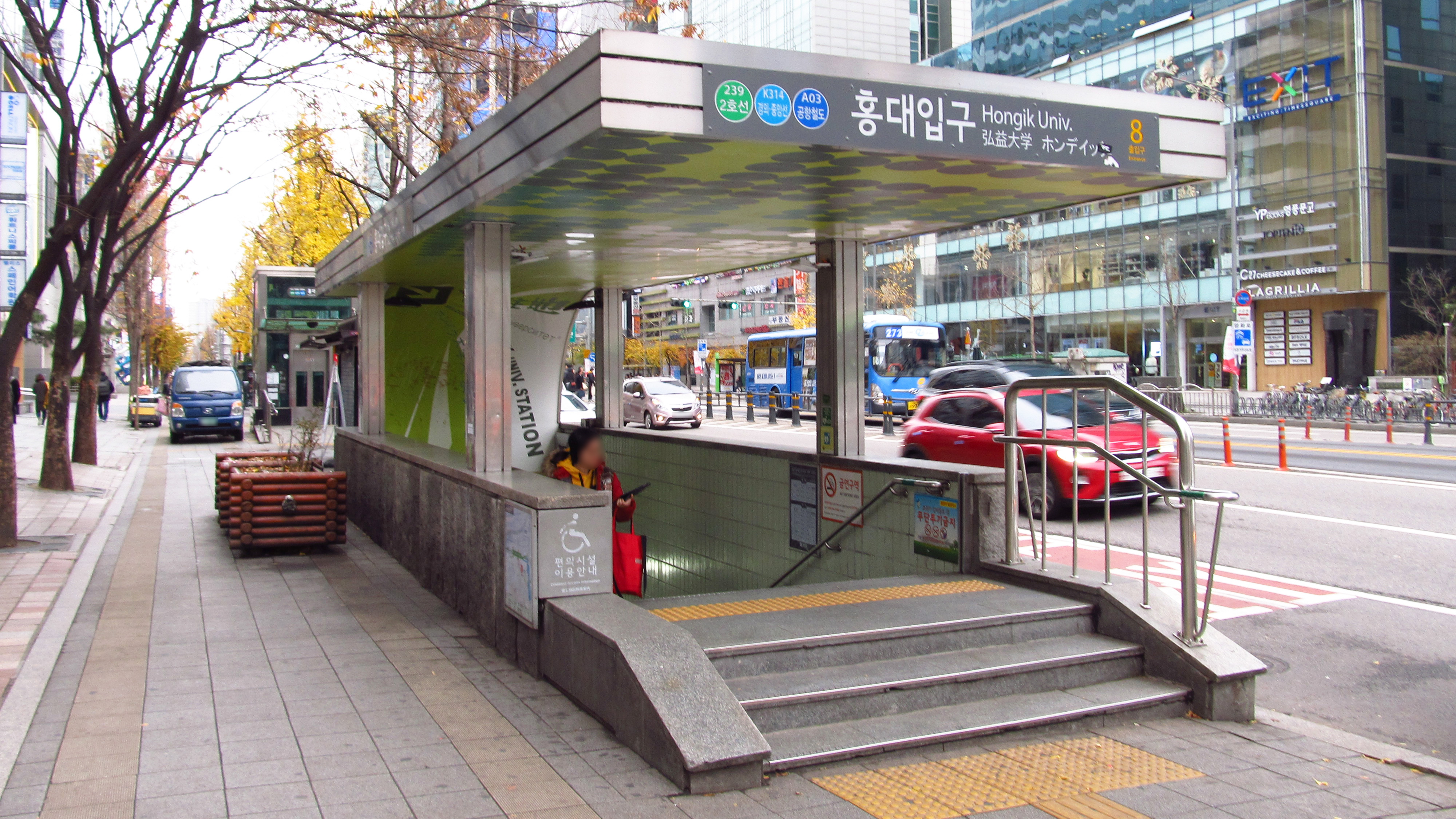 The no.8 entrance to Hongik University Station on the Seoul Metro Line 2, Gyeongui-Jungang Line and AREX in Mapo-gu, Seoul, Republic of Korea(South Korea)